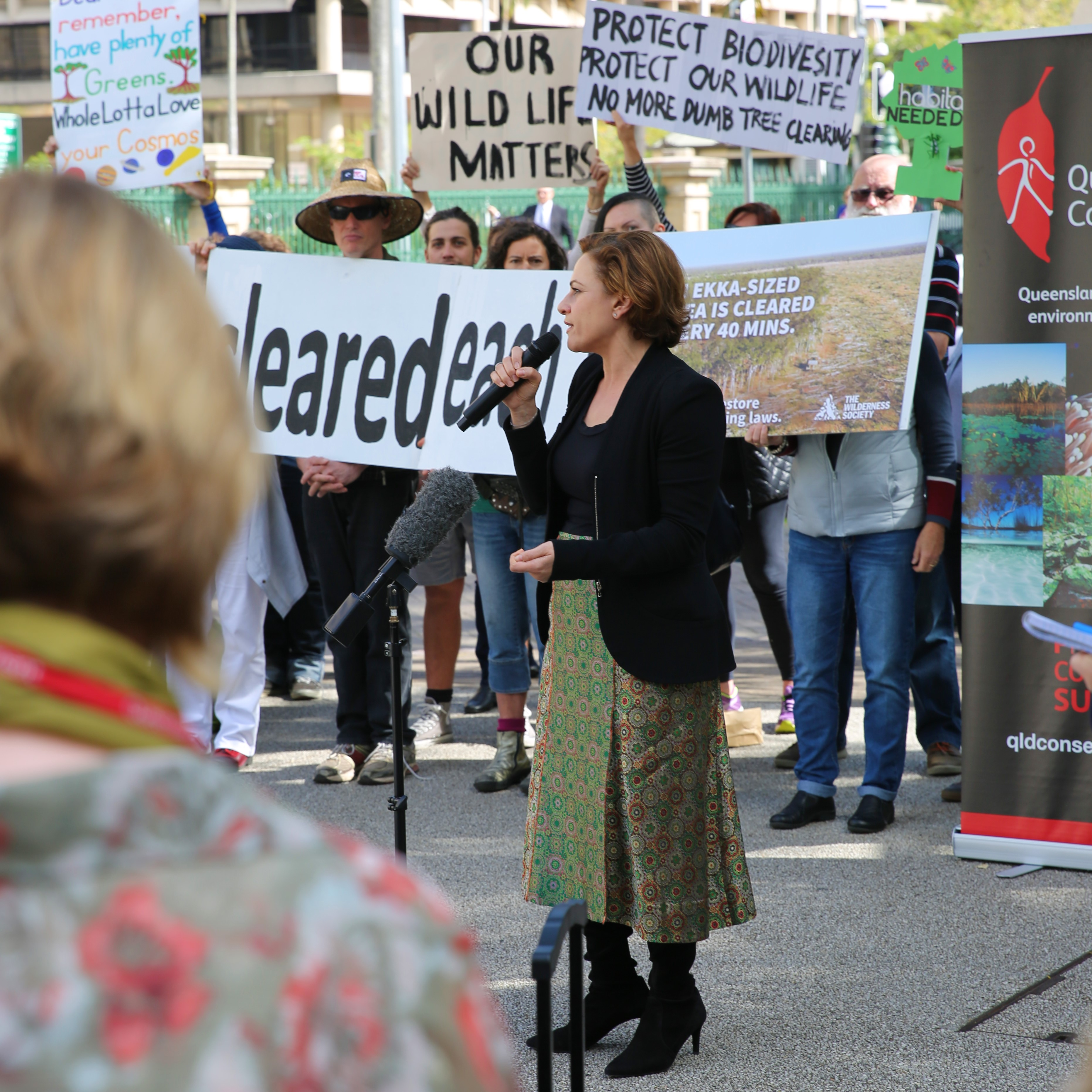 Jackie Trad MP, Deputy Premier of Queensland, at a rally in support of the Vegetation Management (Reinstatement) Amendment Bill in August 2016.